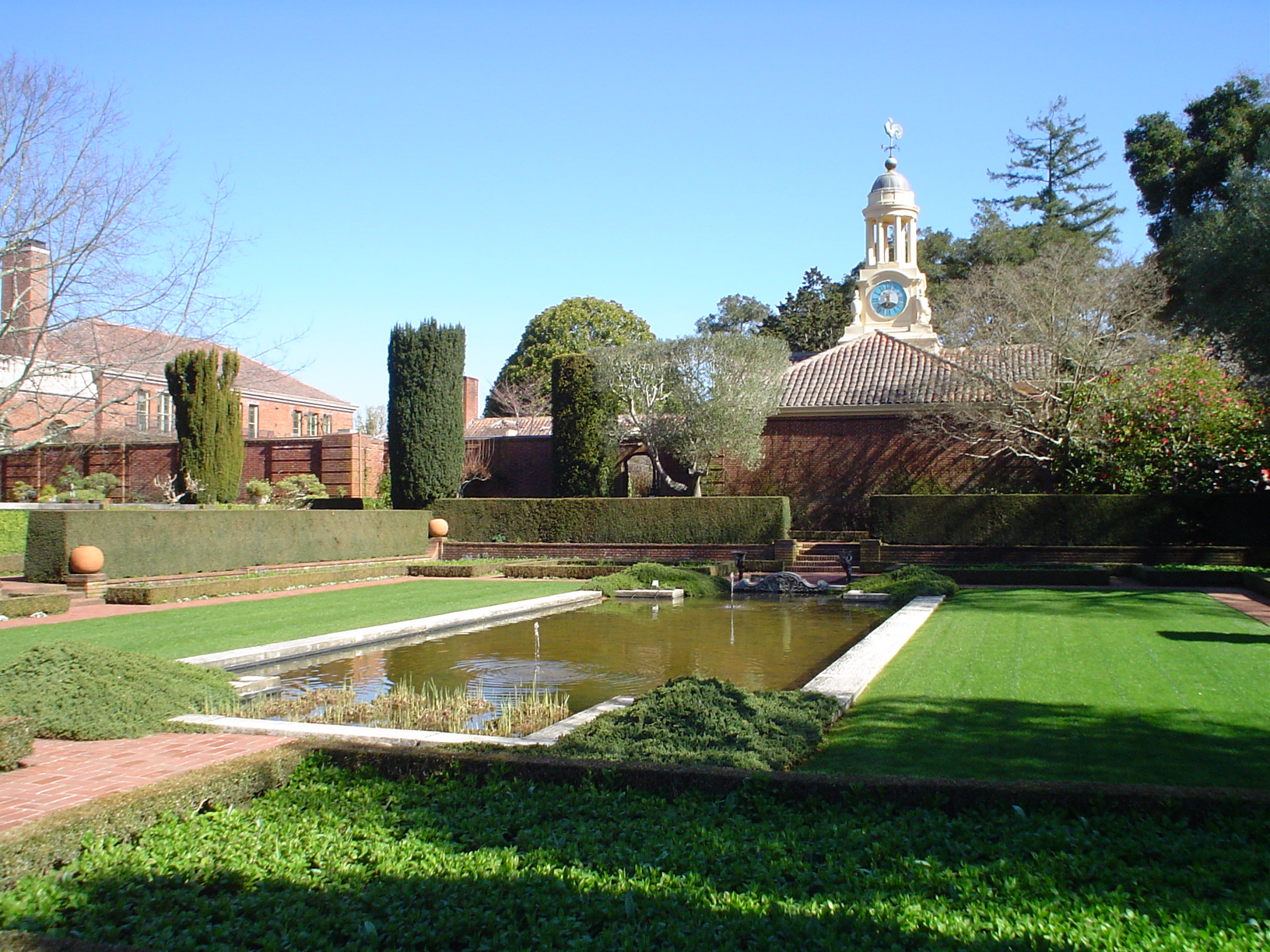 Filoli refelcting pool and former Carriage House (now a gift shop)